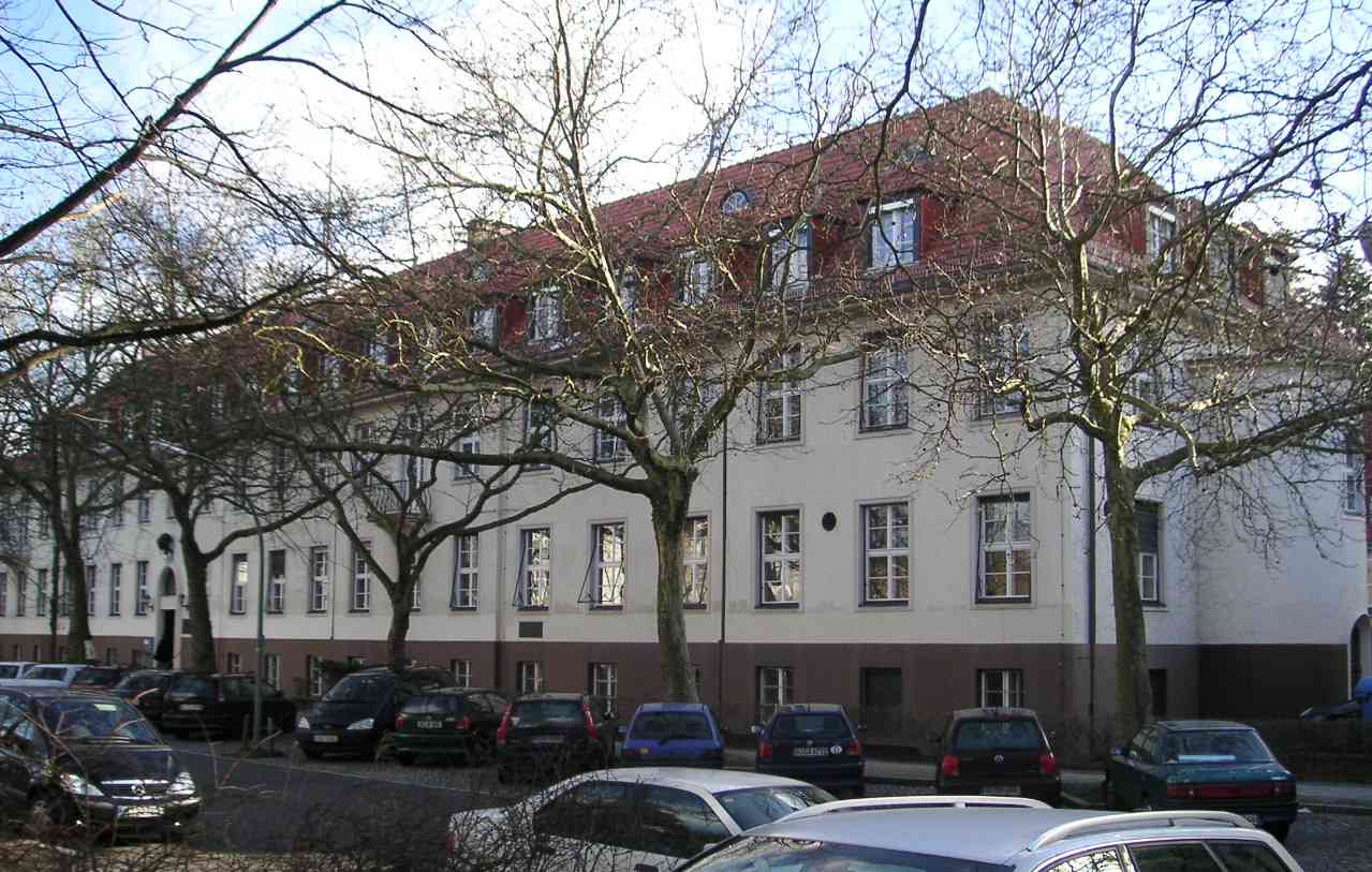 Free University of Berlin, Germany: Otto Suhr Institute for Political Science, Building Ihnestr. 22, Berlin. (former Kaiser Wilhelm Institute of Anthropology, Human Heredity and Eugenics).